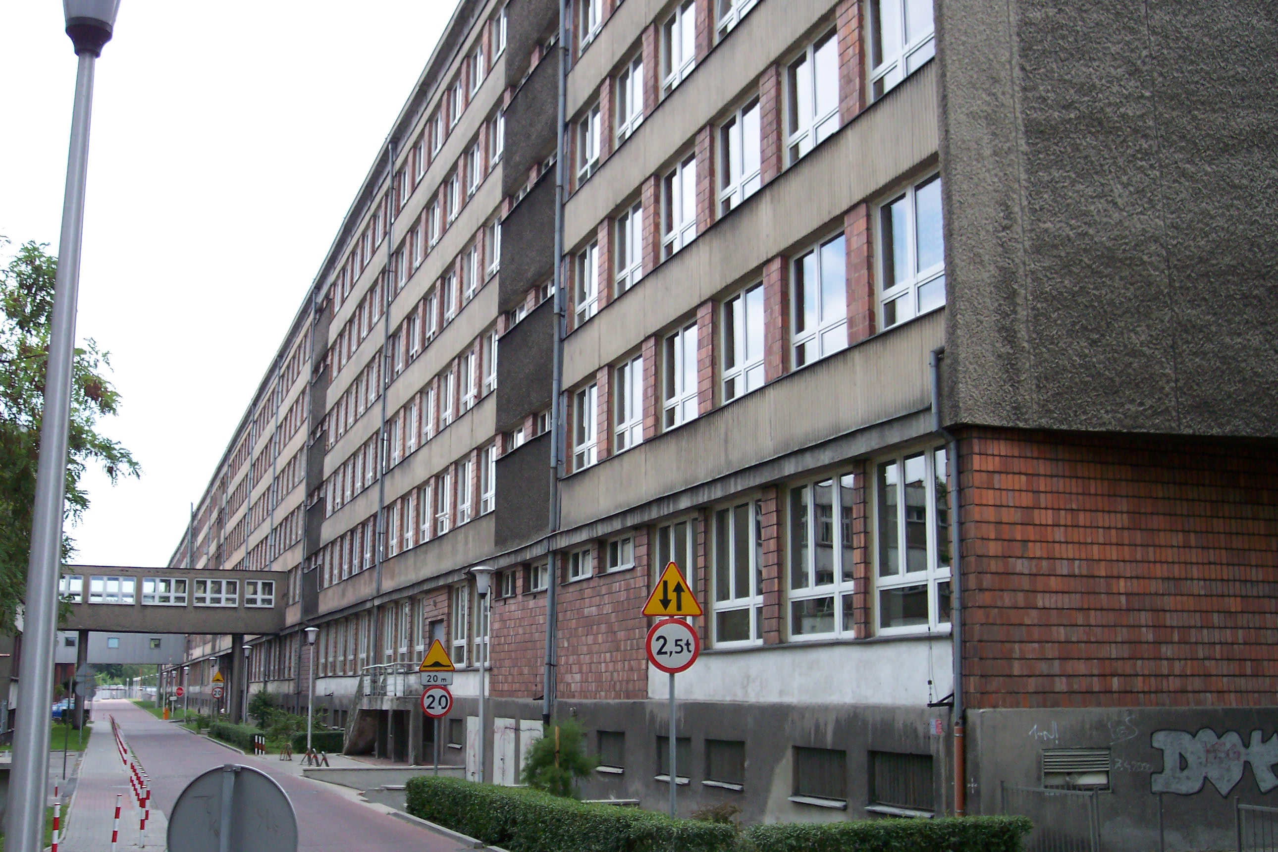 Silesian University of Technology - Faculty of Energy and Environmental Engineering